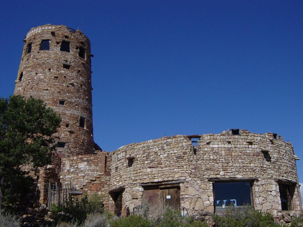 Image taken in April 2004 by Daniel Mayer.